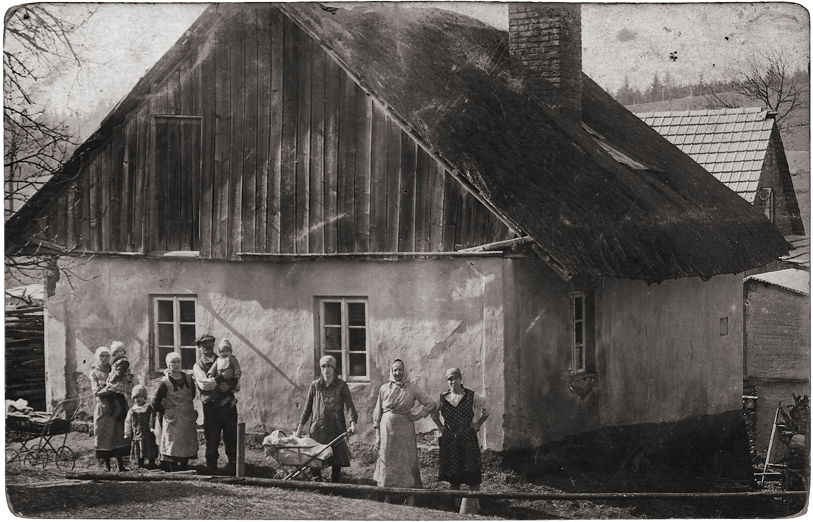 Czech village Želechy (from 1961 part of town Lomnice nad Popelkou